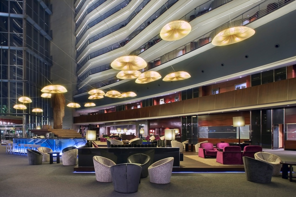 Hotel Rey Juan Carlos I